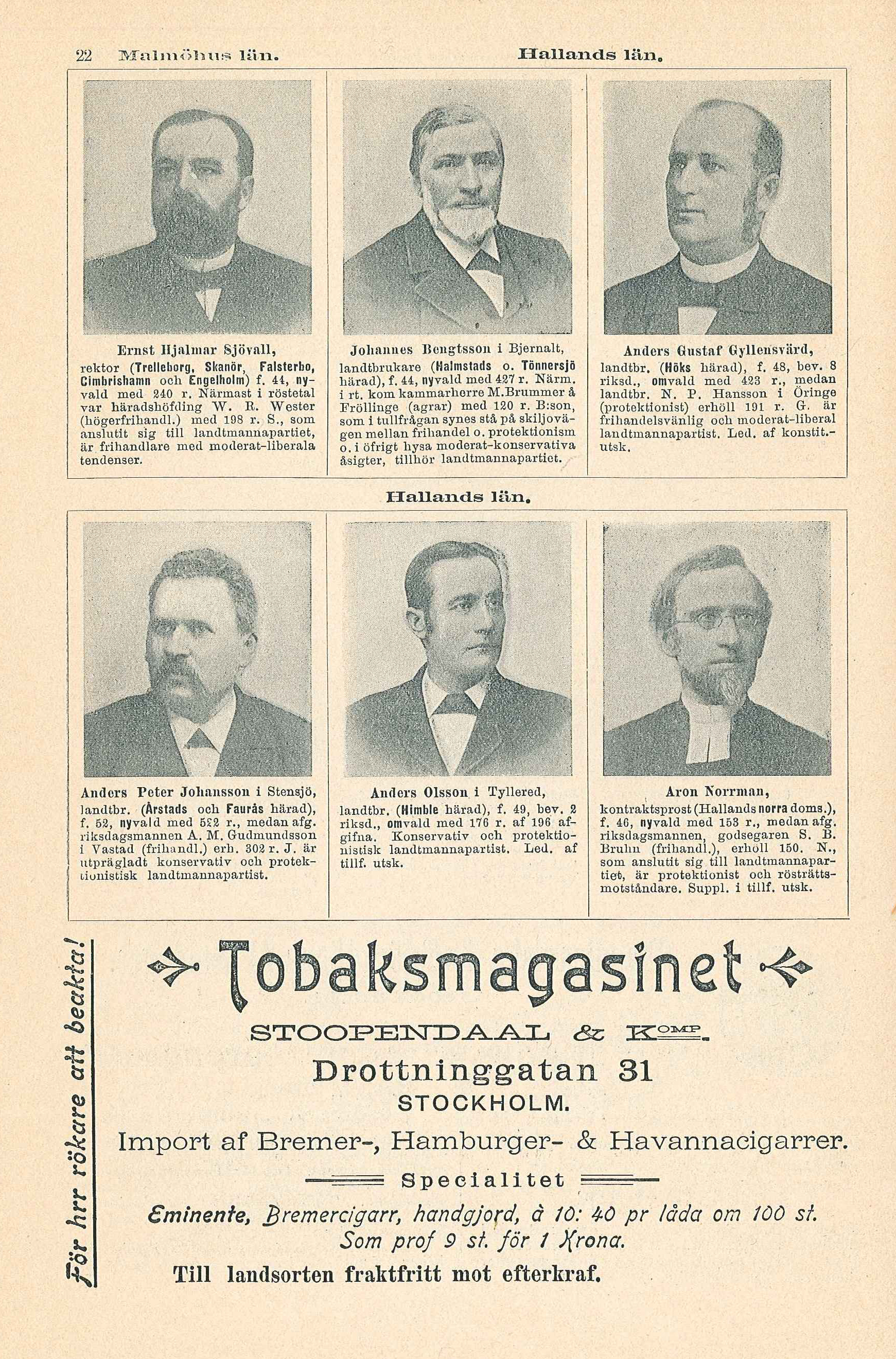 Page 22 of an album featuring portraits of all the members of the second chamber of the Swedish parliament (Sveriges riksdag) elected in 1897. This page featuring parts of the members representing the counties of Malmöhus and Halland.